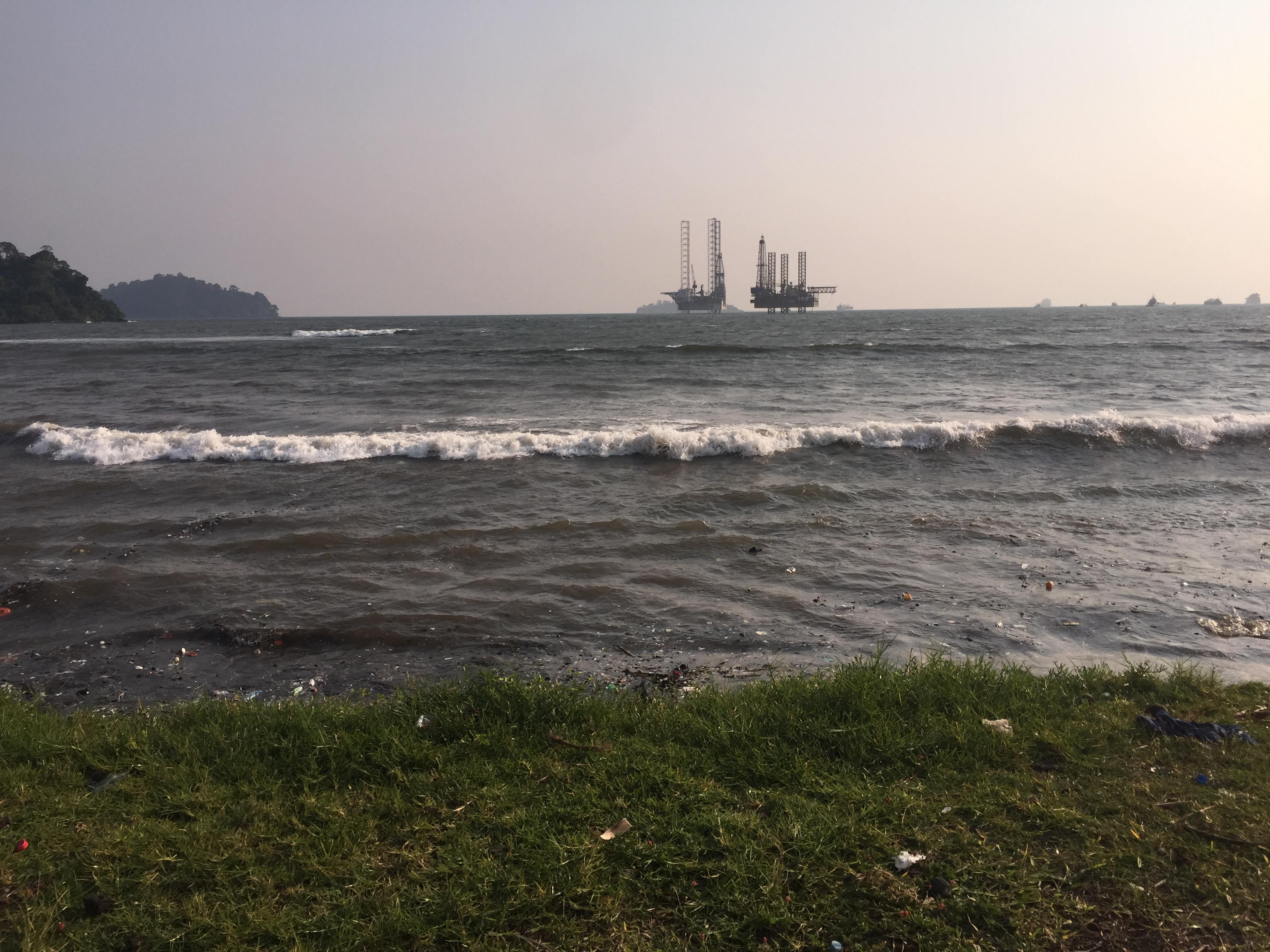 A view of the Atlantic Ocean from Limbe, South west region, Cameroon